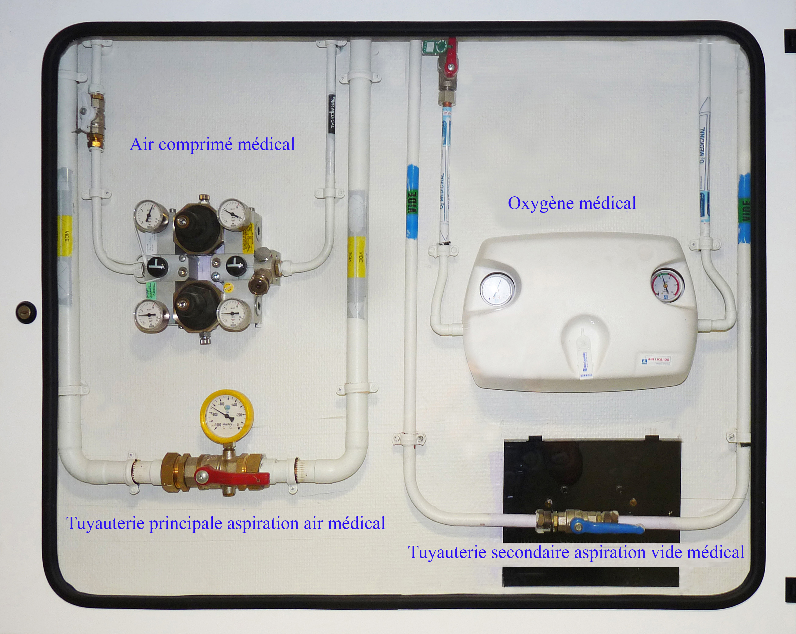 Medical gas distribution cabinet.